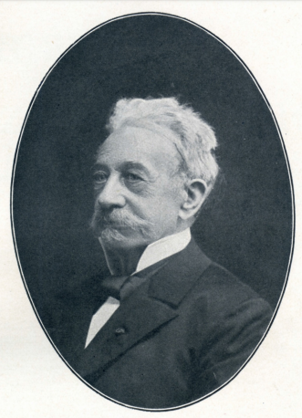 image of Doctor Carl Christian Ochsenius